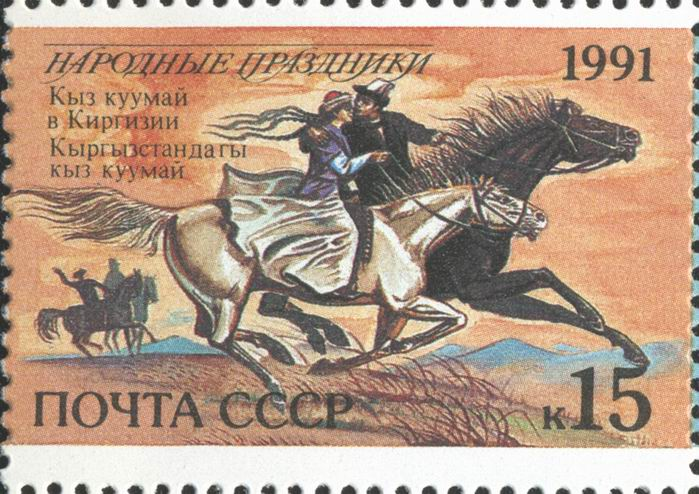 A USSR stamp